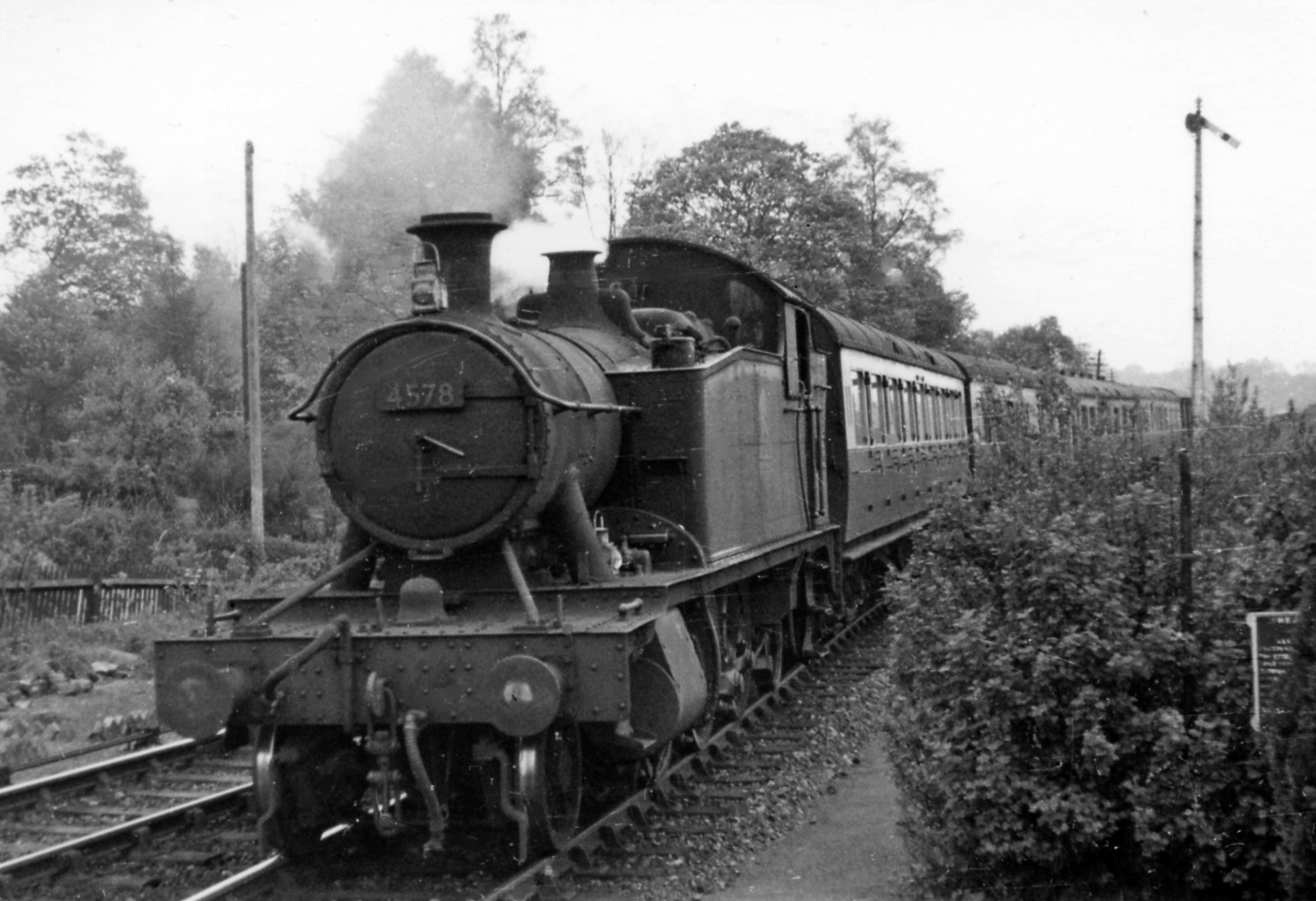 Shrewsbury - Worcester train entering Hampton Loade station. View northward, towards Bridgnorth and Shrewsbury: ex-GW Shrewsbury - Bewdley line, closed 9/9/63, but operated (south of Bridgnorth) since 1970 by the Severn Valley (Heritage) Railway, Hampton Loade being its southern terminus until 1974. Here in 1951, Collett '4575' 2-6-2T No. 4578 (built 2/27) is heading a typical GW branch-line train.